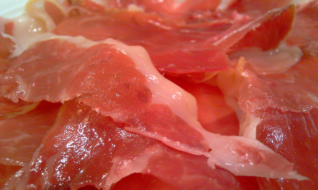 Jamon iberico